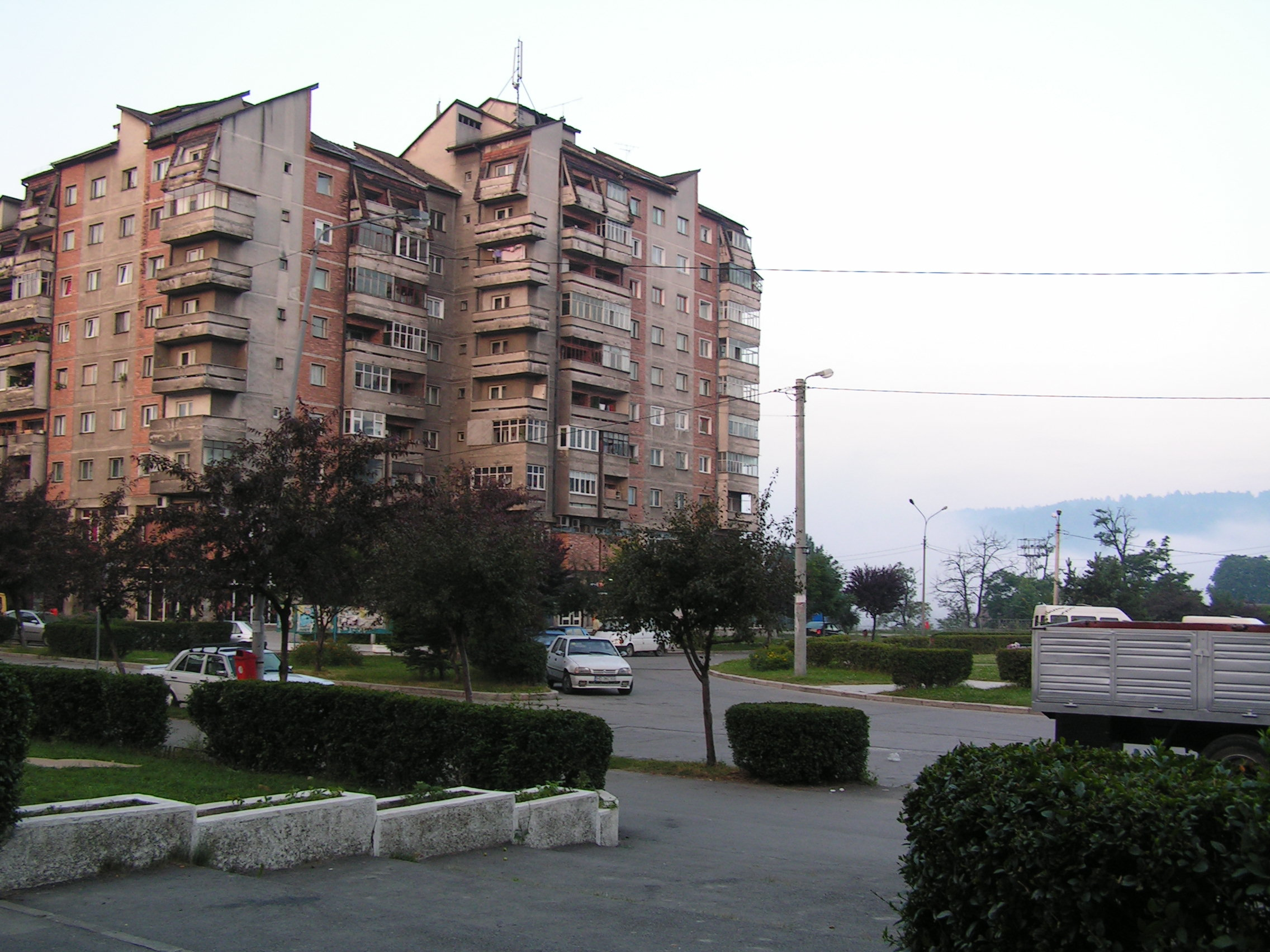 Apartment Building in Petrosani, Romaina